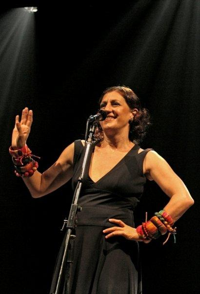 Na Ozzetti singing in her show Balangandas, March 2009